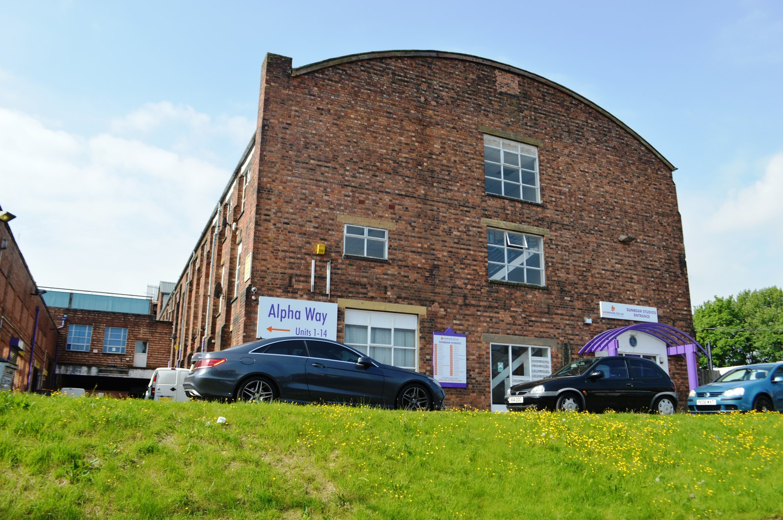 Moorfields Works - Experimental Department